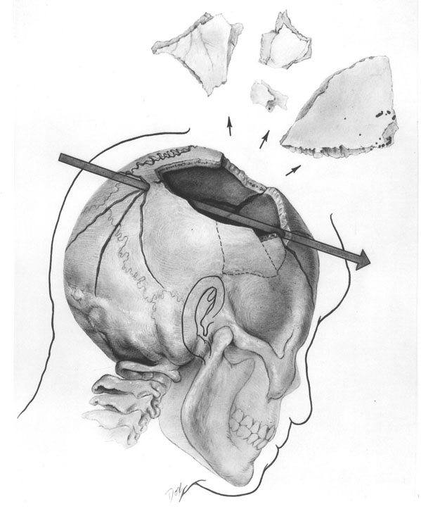 Diagram showing the trajectory of the bullet through President John F. Kennedy's skull. Skull fragments not drawn to scale. Made by medical illustrator Ida G. Dox, and published as Figure 29 on page 125 of volume 7 (Medical and Firearms Evidence) of the Appendix to Hearings Before the Select Committee on Assassinations of the U.S. House of Representatives (1979).